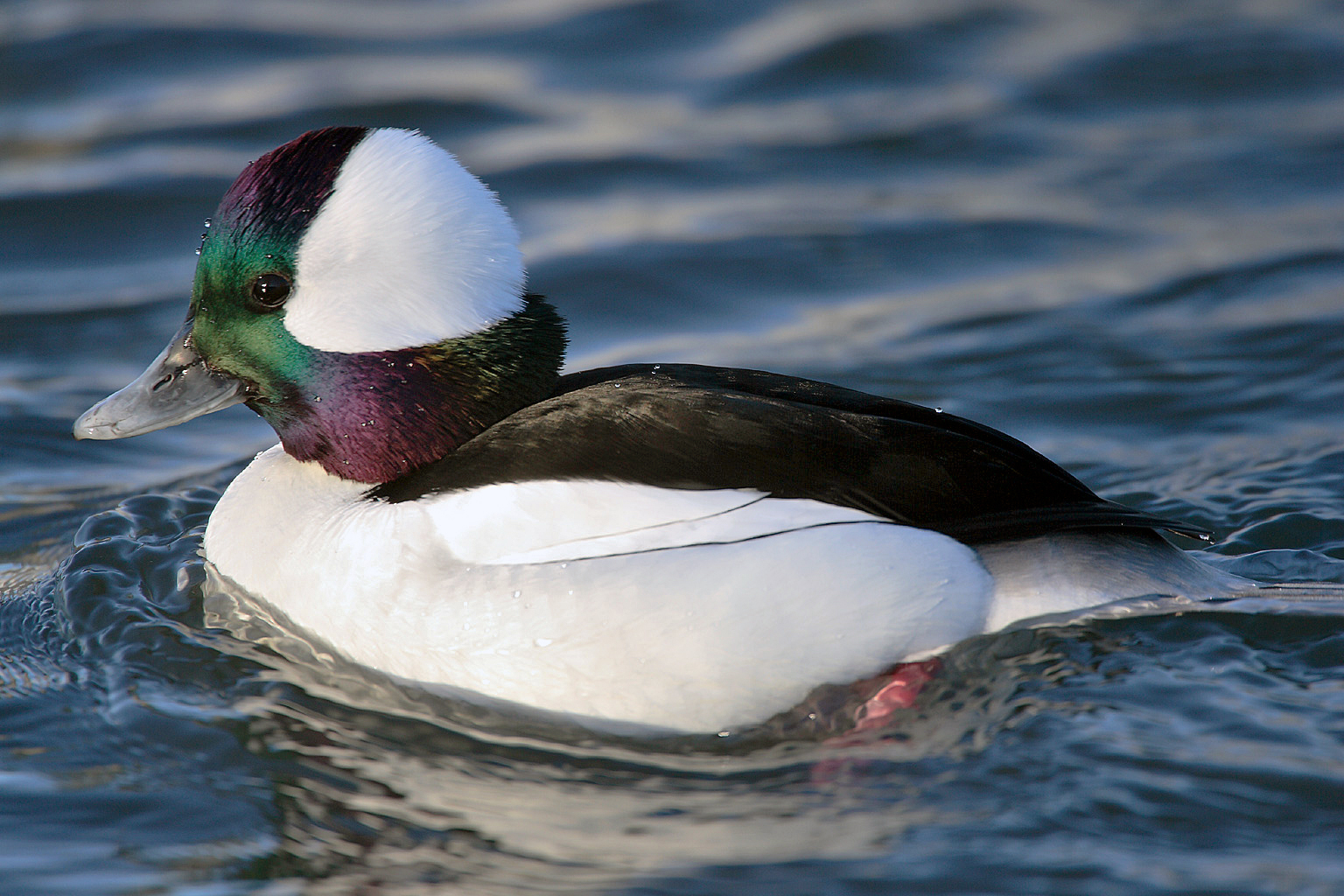 Bufflehead -- Humber Bay Park (East), Toronto, Canada -- 2006 March